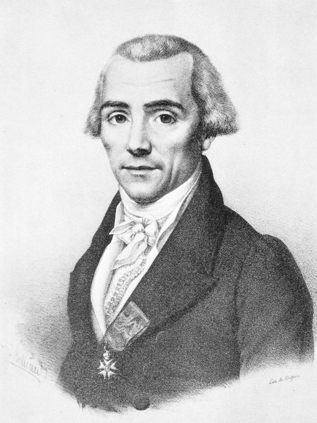 Nicolas Louis Vauquelin (16 May 1763 - 14 November 1829)